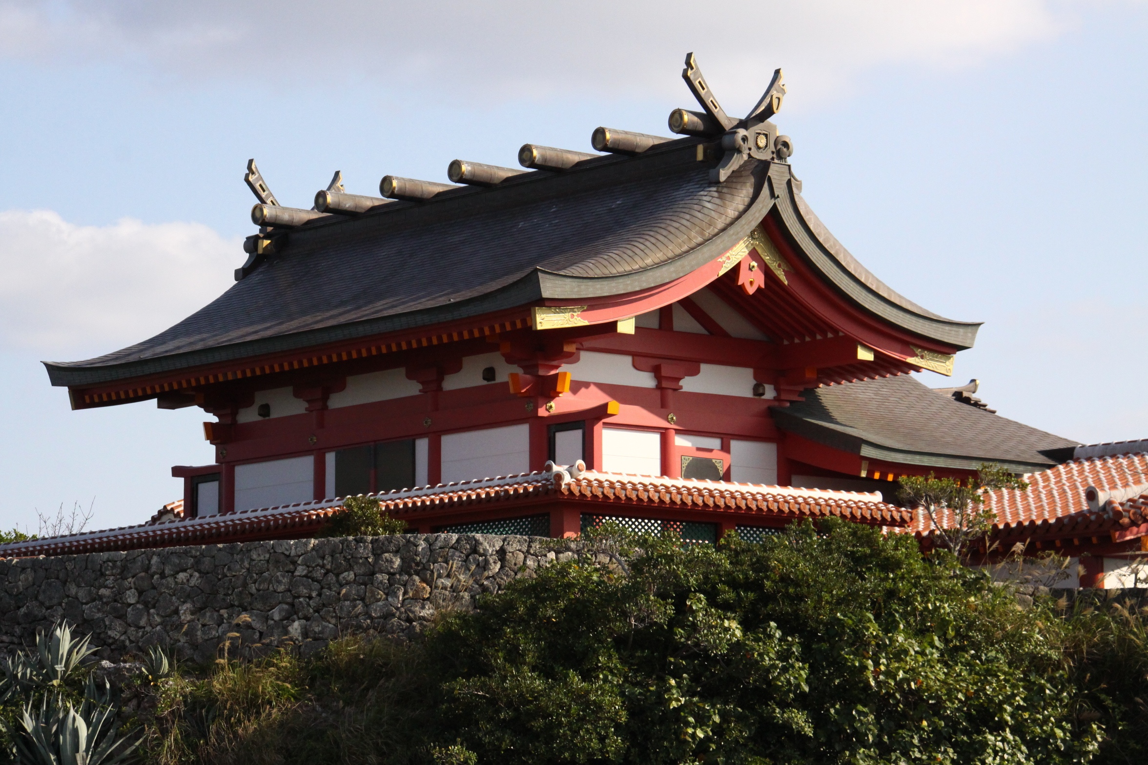 Naminouegū Honden